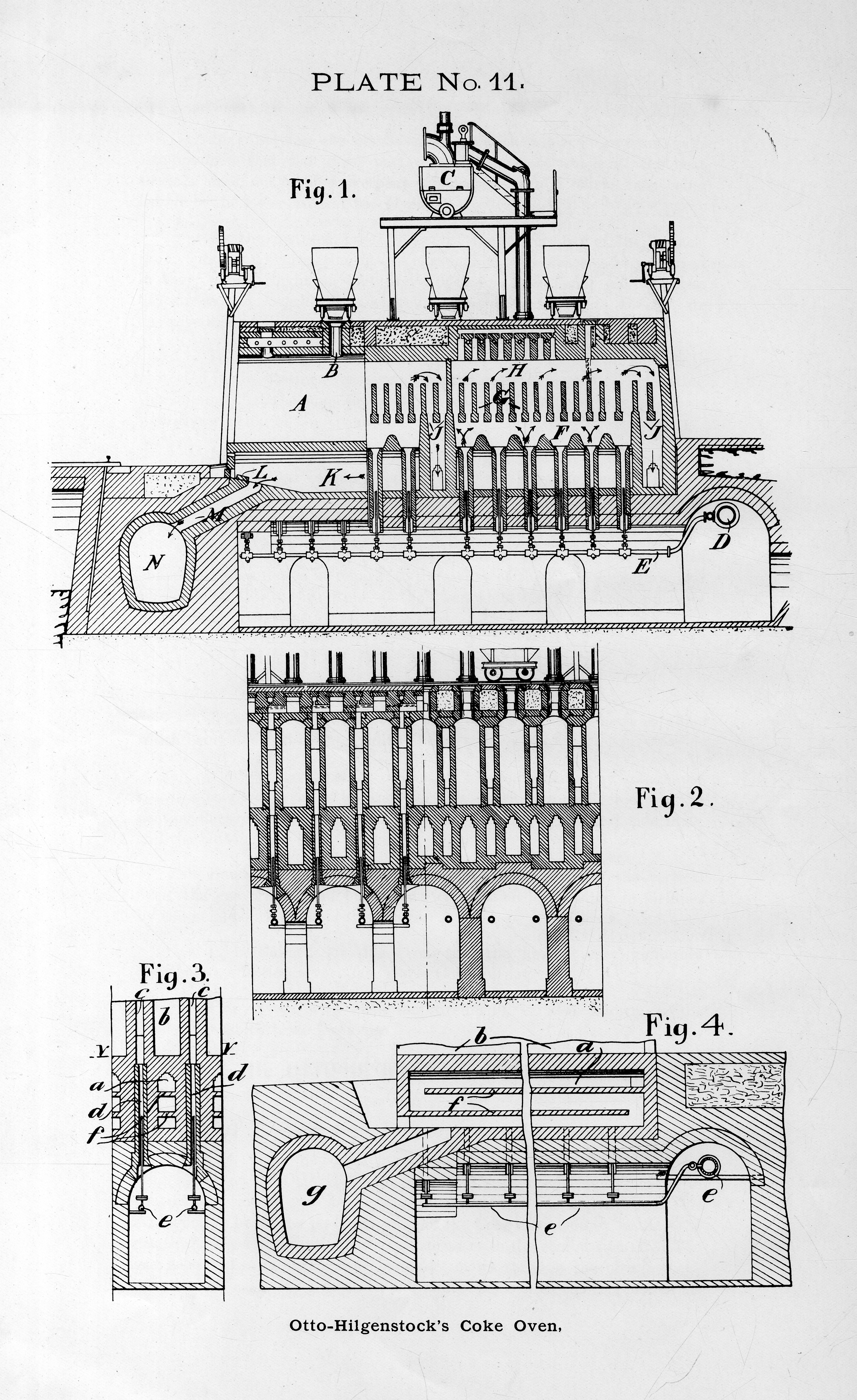 This upload is from a volume in the ownership of the North of England Institute of Mining and Mechanical Engineers at Newcastle Upon Tyne The actual volume is out of copright by virtue of age. The scan would be in copyright which is waived. The Institute librarian Jennifer Hillyard has freely and fully consented to this upload to Wiki Commons which has been undertaken at the Institute.